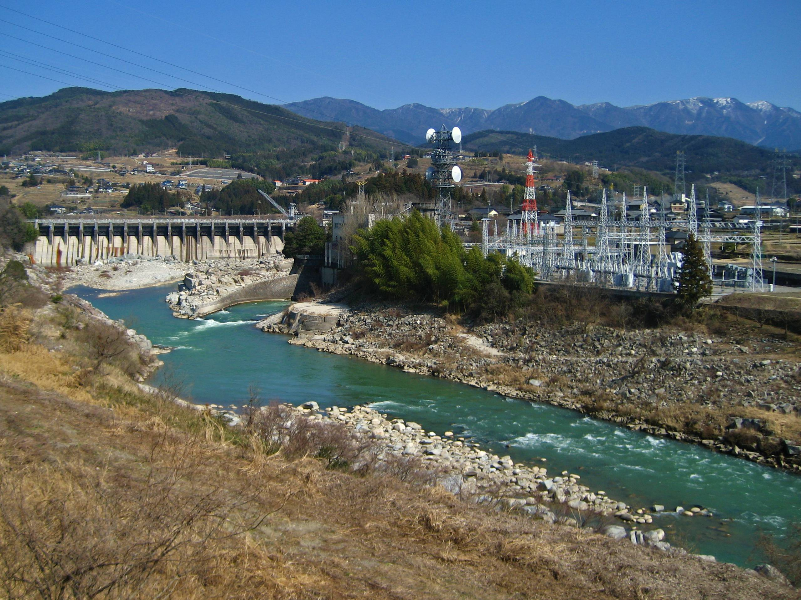 Ochiai power station.